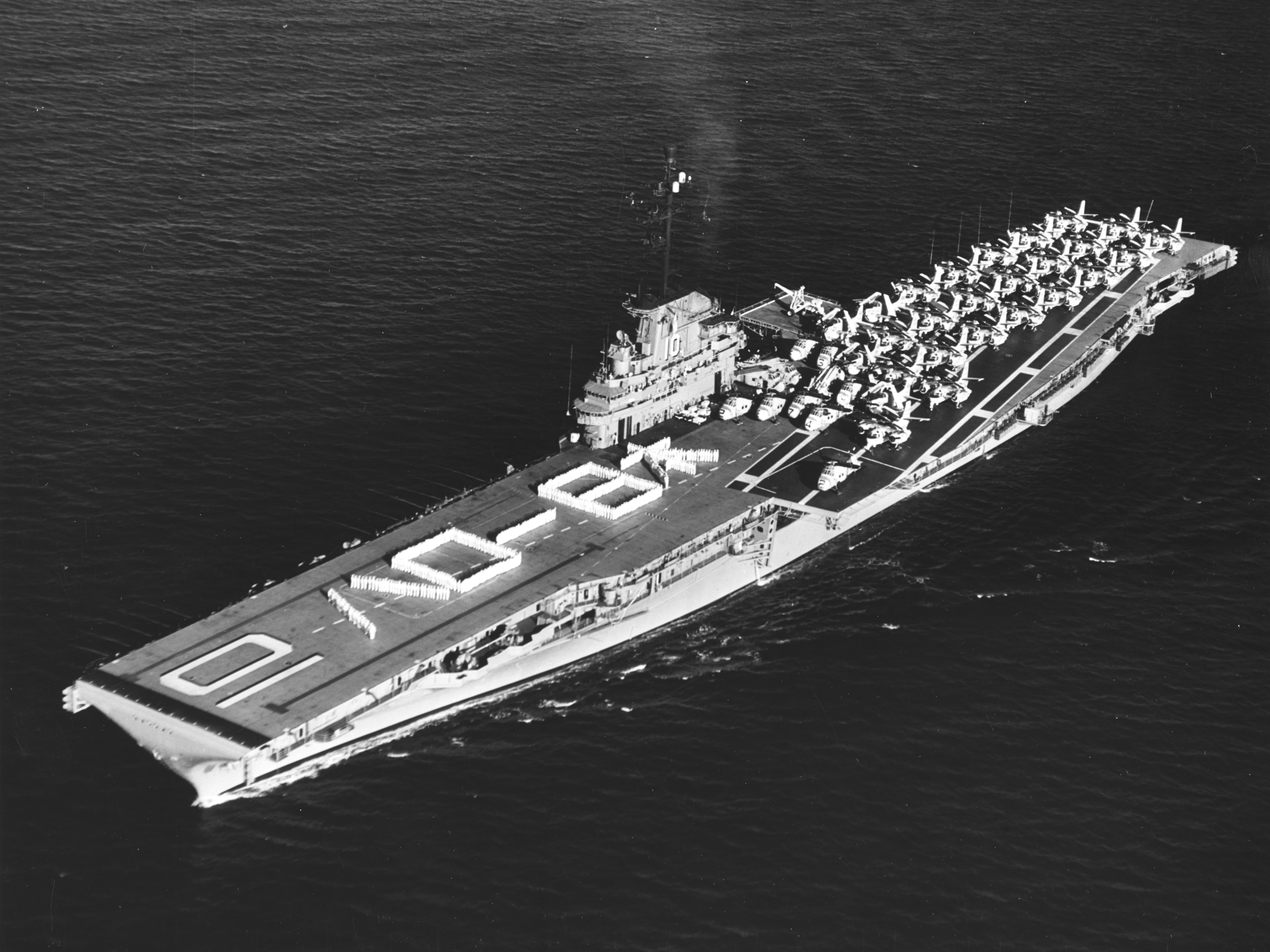 Crewmembers of the U.S. Navy aircraft carrier USS Yorktown (CVS-10) form Japanese characters reading "Hello Japan" as she arrives at U.S. Fleet Activities Yokosuka, Japan, on 3 March 1960. Yorktown was then commanded by Captain Louis H. Bauer, USN, and flew the flag of Rear Admiral Joseph D. Black, USN, Commander, Carrier Division 17. Aircraft on Yorktown's flight deck include eleven Sikorsky HSS-1N Seabat of Helicopter Anti-Submarine Squadron 4 (HS-4) "Black Knights"; four Douglas AD-5W Skyraider of Carrier Airborne Early Warning Squadron 11 (VAW-11) "Early Eleven" Det.T and 22 Grumman S2F-1/-1S Tracker of Anti-Submarine Squadron 23 (VS-23) "Black Cats". The transliteration of the Japanese Katakana characters is: "HaRo-NiHon".